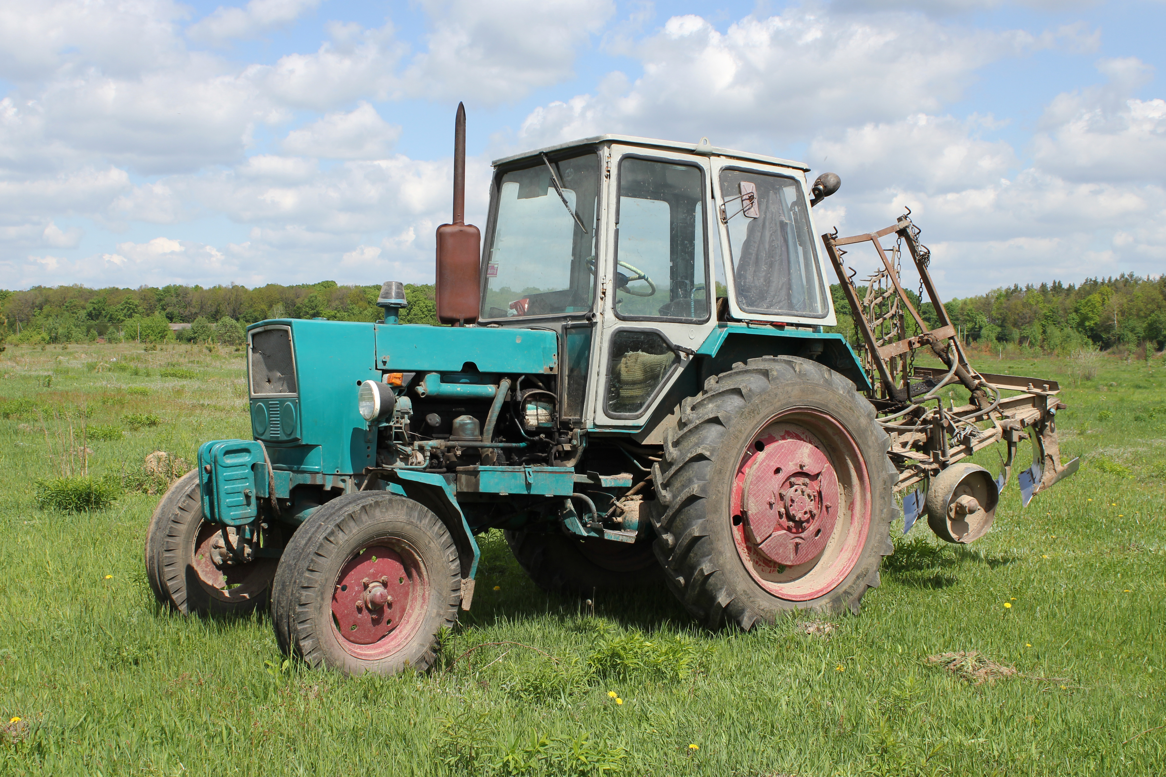 YuMZ-6KL tractor. Was produced in Yuzhmash in 1986. Photo taken in settlement Slavnoe near Vinnitsa, Ukraine.